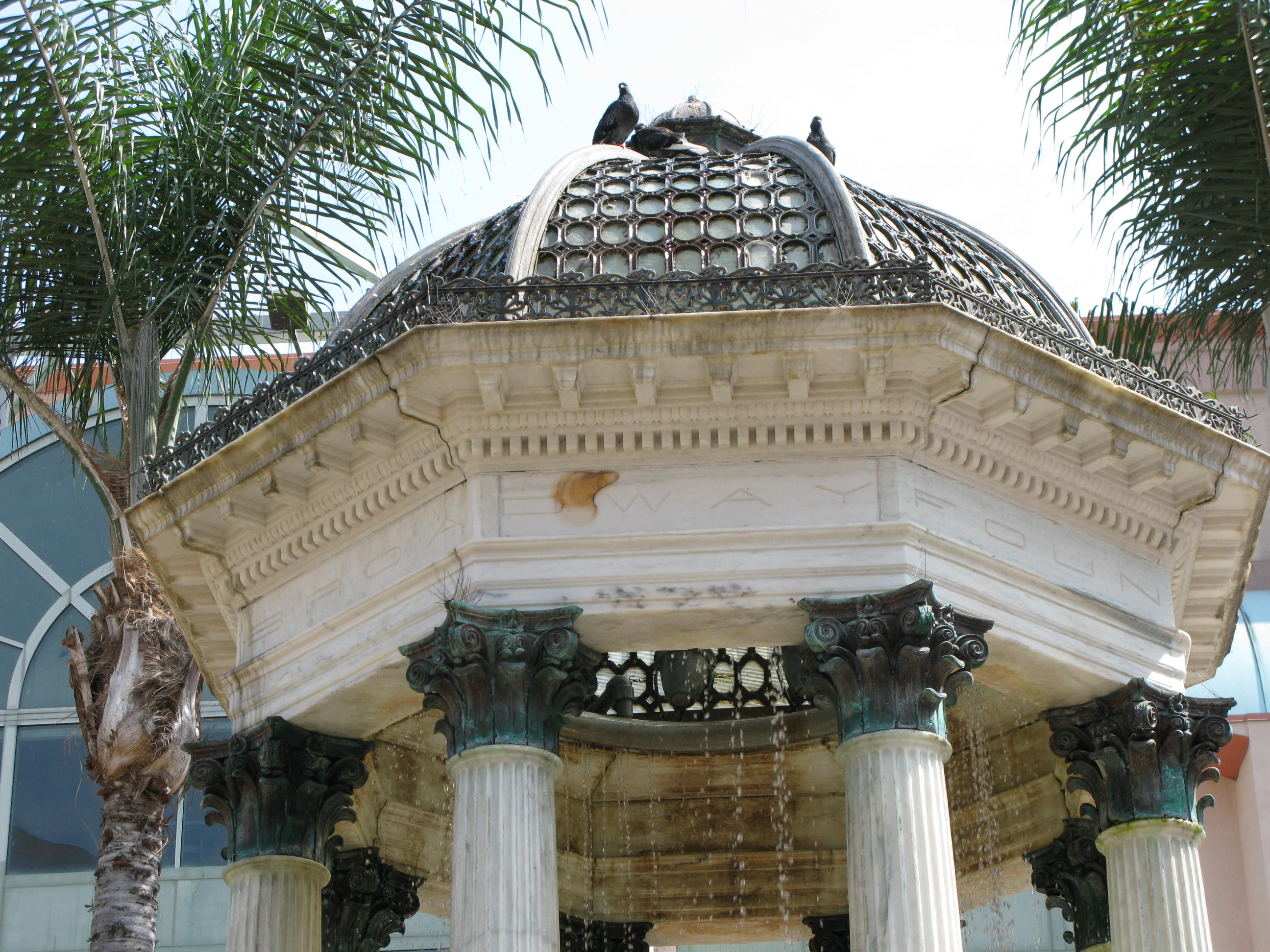 Detail of the cupola of the Broadway Fountain in Horton Plaza Park, Downtown San Diego, California. "Broadway Foun…"the start of the official name of the fountain, is carved in the panels immediately above the columns. However most locals know it as the Horton Plaza fountain. Built in 1910 and designed by Irving Gill, the Broadway Fountain is considered the first electric water fountain in North America.